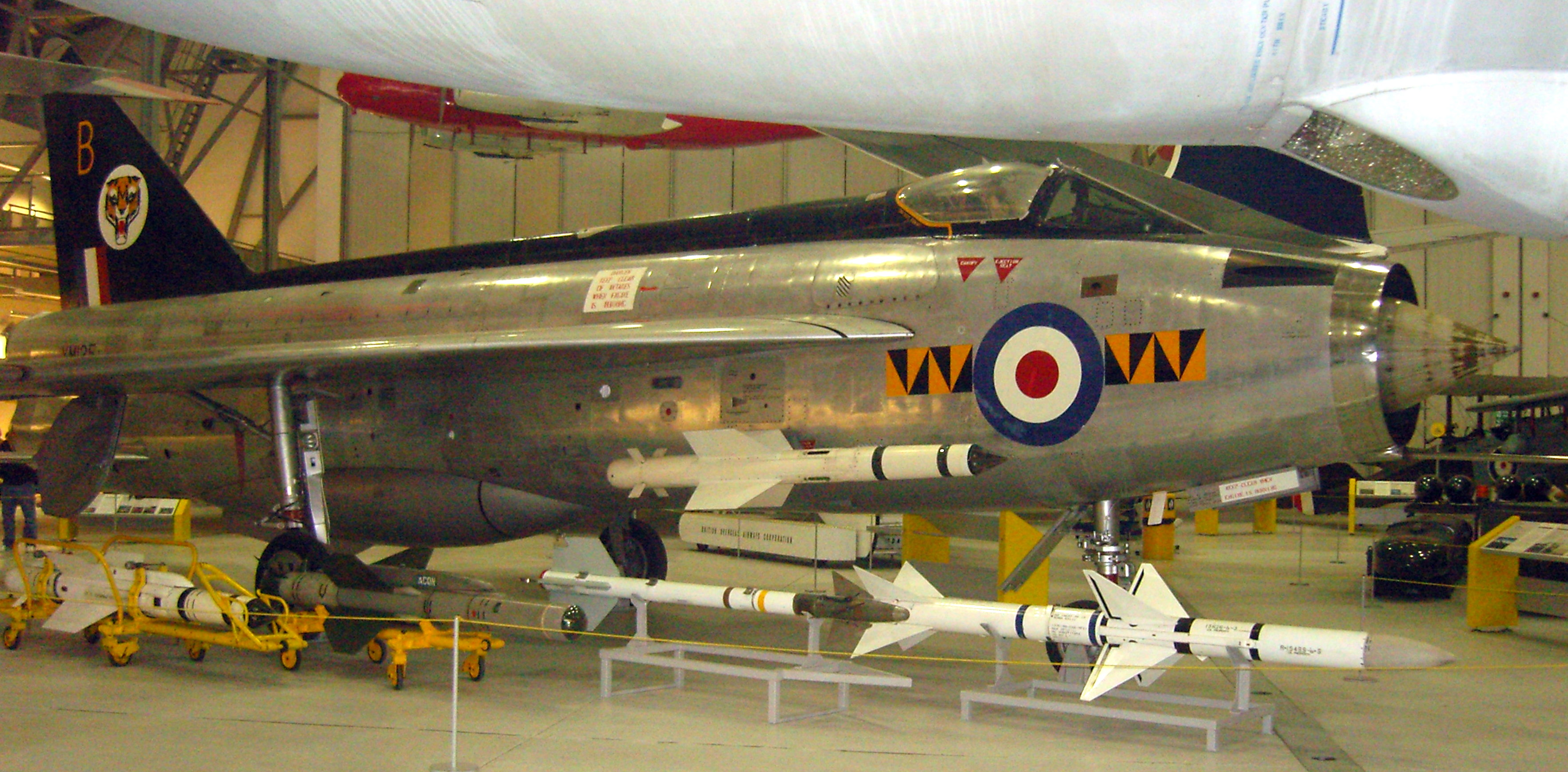 Photo ref; SNC16524 (Edited)